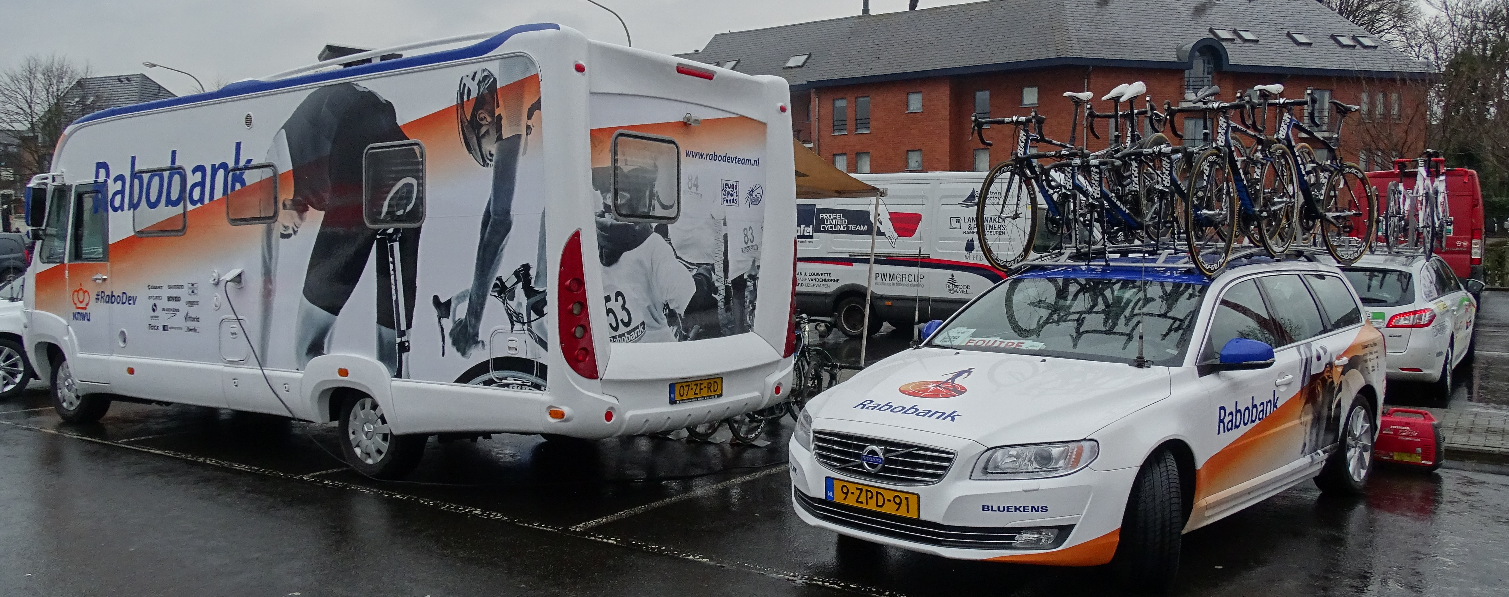 Triptyque des Monts et Châteaux 2015 Depicted team: Rabobank Development